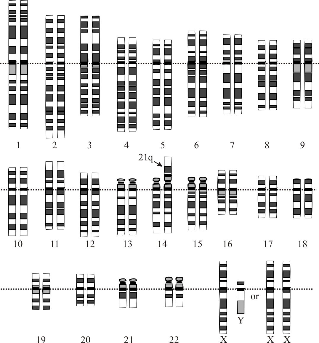 Ideogram for Down syndrome by pseudo-dicentric Robertsonian translocation rob(14;21); Derivative versions from file Down syndrome translocation.png